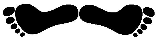 First Position of the feet in Ballet